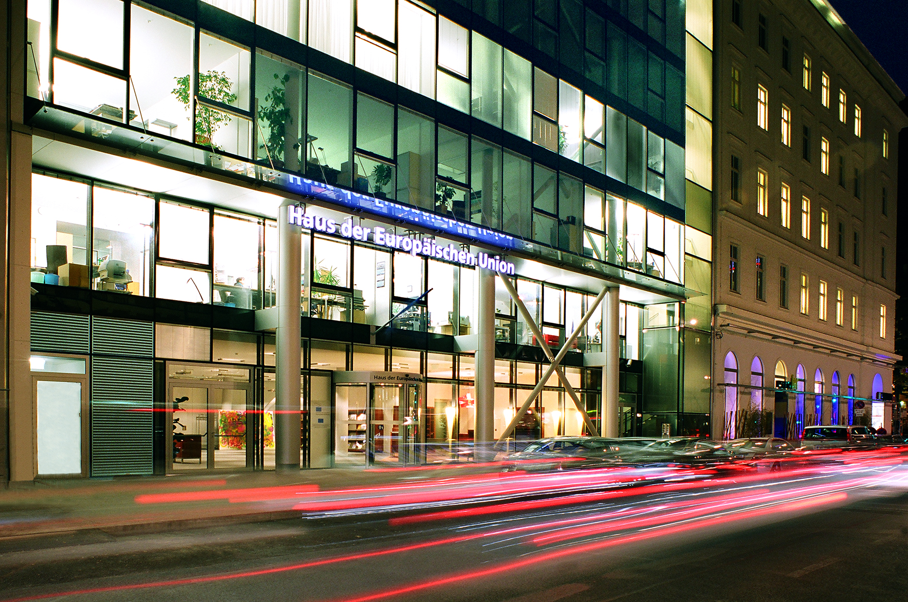 House of the European Union in Vienna